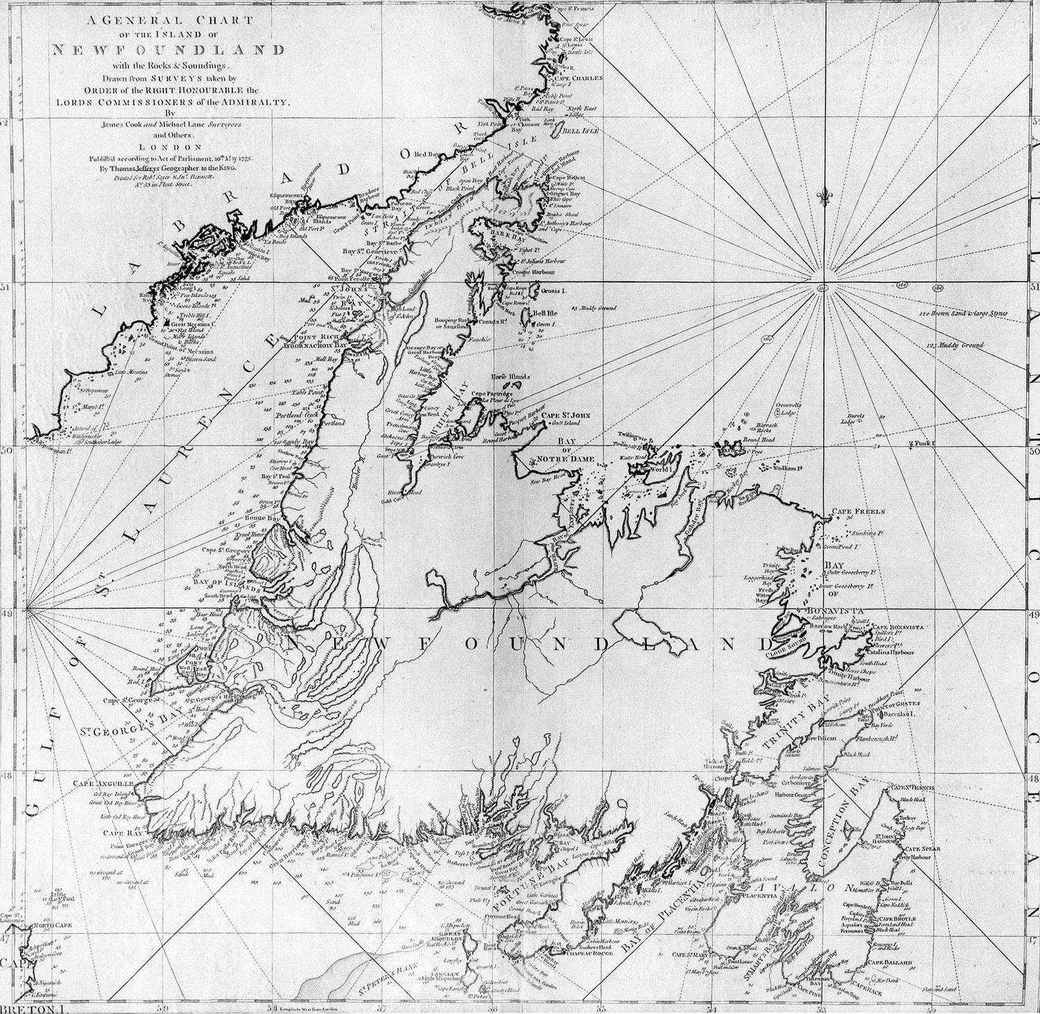 A general chart of the island of Newfoundland. Surveyed by James Cook and Michael Lane, and "publish'd according to Act of Parliament by Thomas Jefferys Geographer to the King, 1775."